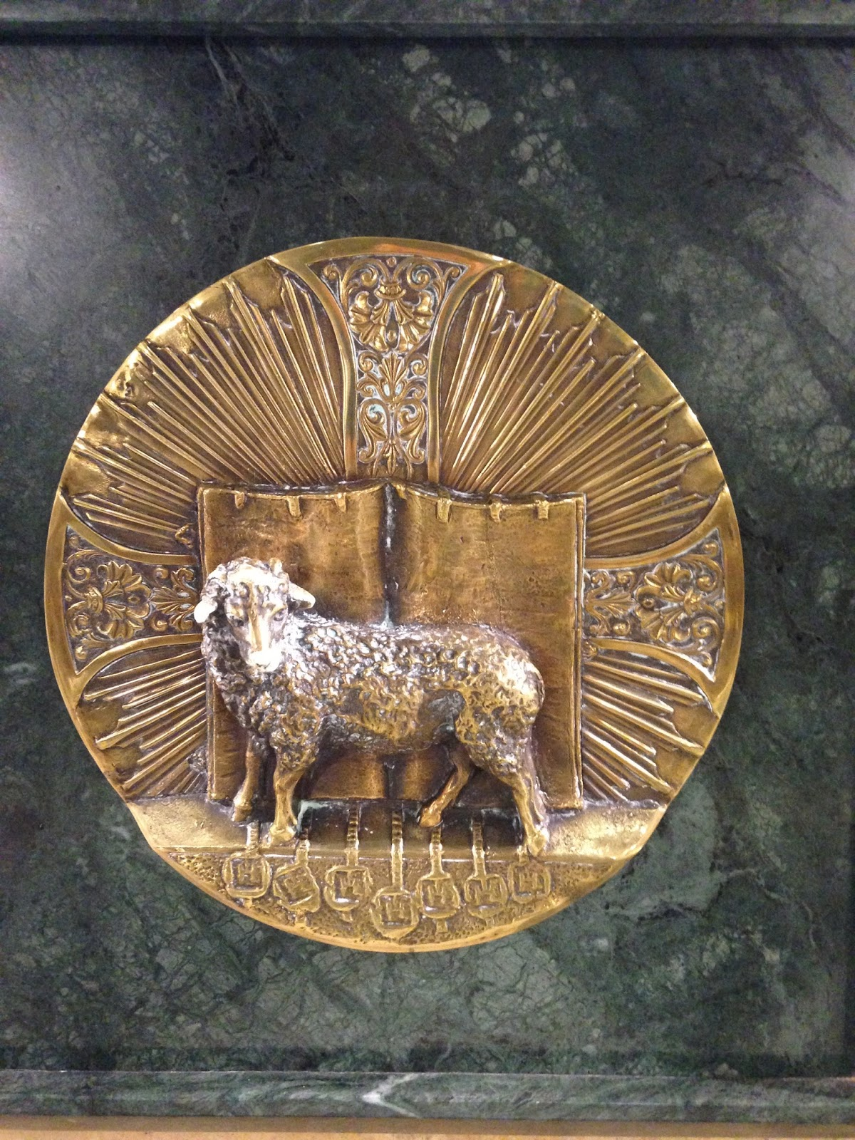 Detalle del altar